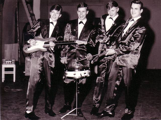 The Strangers finnish pop-group